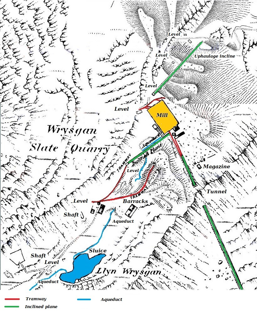 A map showing the Wrysgan Quarry. From the mill downwards, it dates from 1889, when the quarry was working, while the top half shows the uphaulage incline, and dates from 1919, when the quarry was closed.